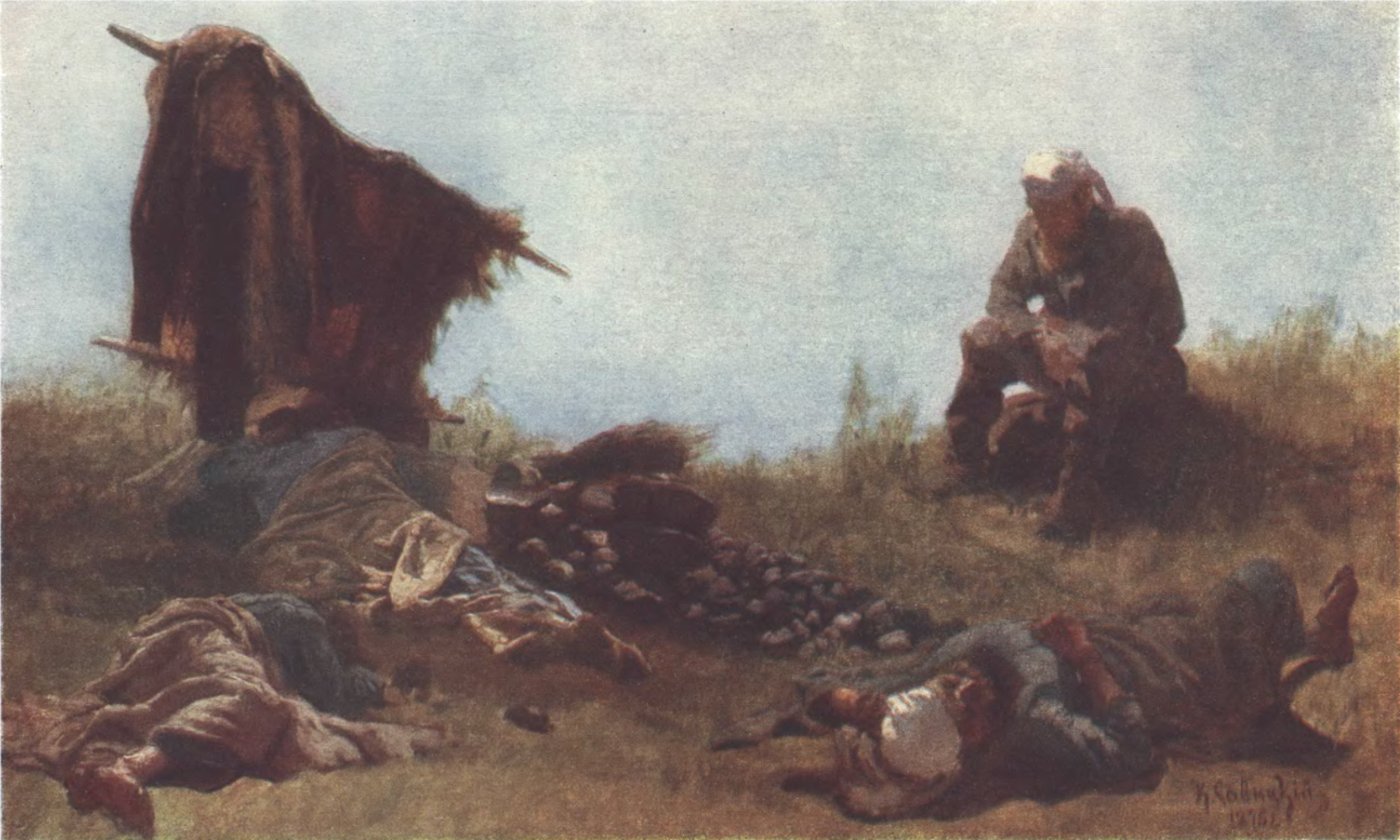 Rest at work (painting by Konstantin Savitsky, 1875)